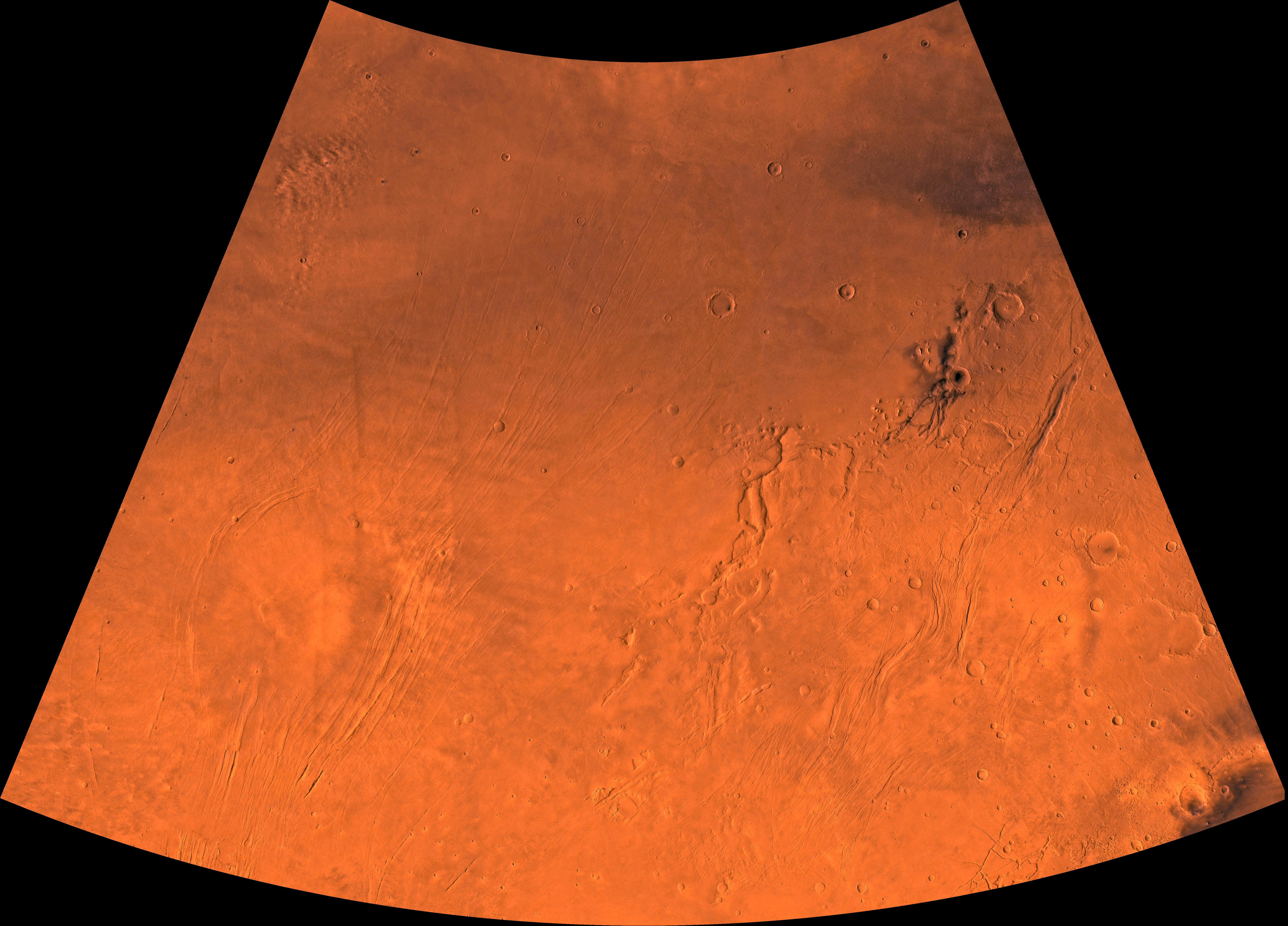 PIA00163: MC-3 Arcadia Region Mars digital-image mosaic merged with color of the MC-3 quadrangle, Arcadia region of Mars. The southern part contains the large shield volcano, Alba Patera, and the highly faulted Tempe Terra province, which includes many small volcanoes. The northern part is dominated by relatively smooth plains. Latitude range 30 to 65 degrees, longitude range 60 to 120 degrees.